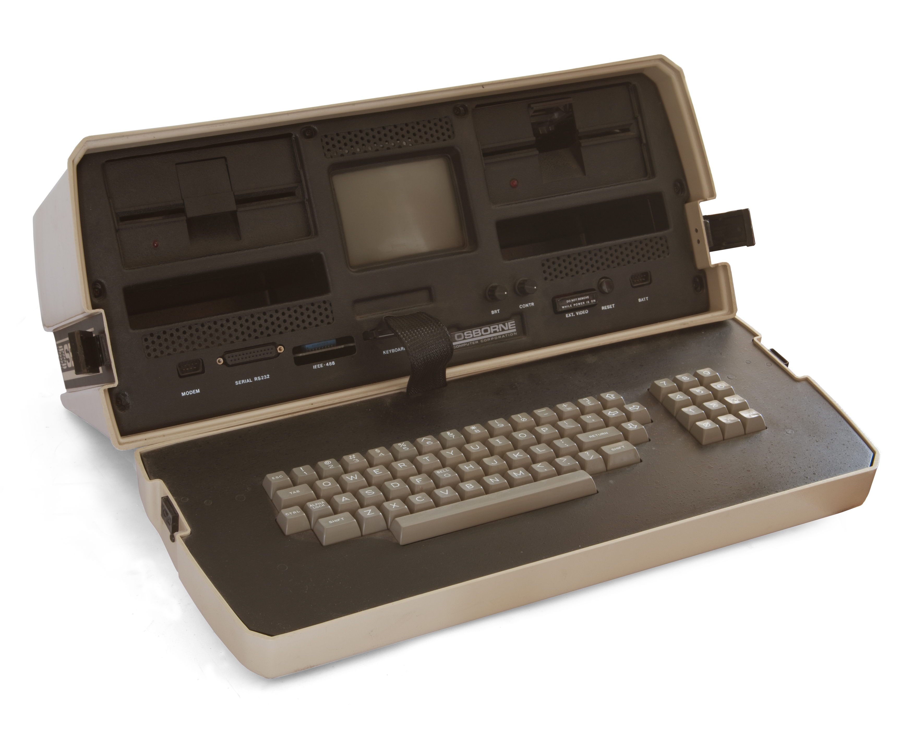 Osborne 1 portable computer - early model.